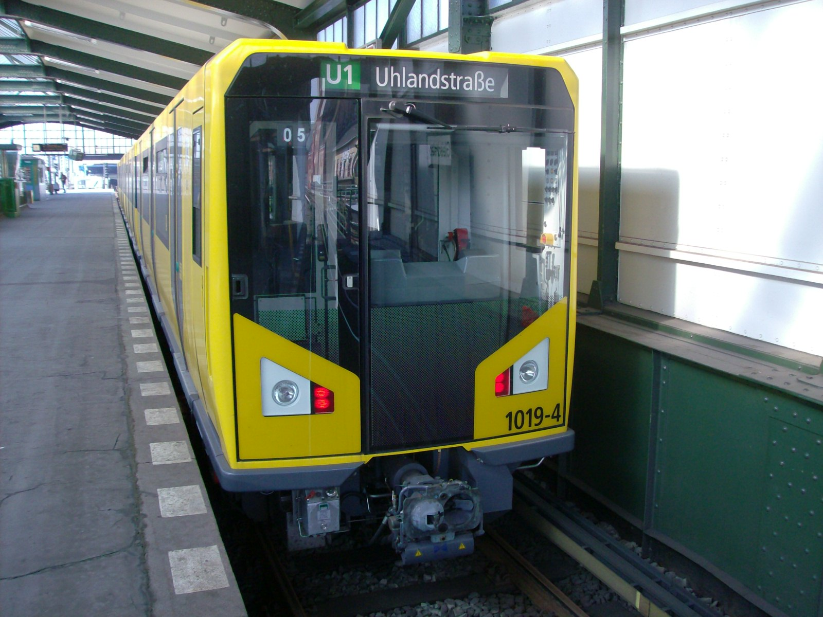 A subway train of Berlin U-Bahn, HK type, in Gleisdreieck station.